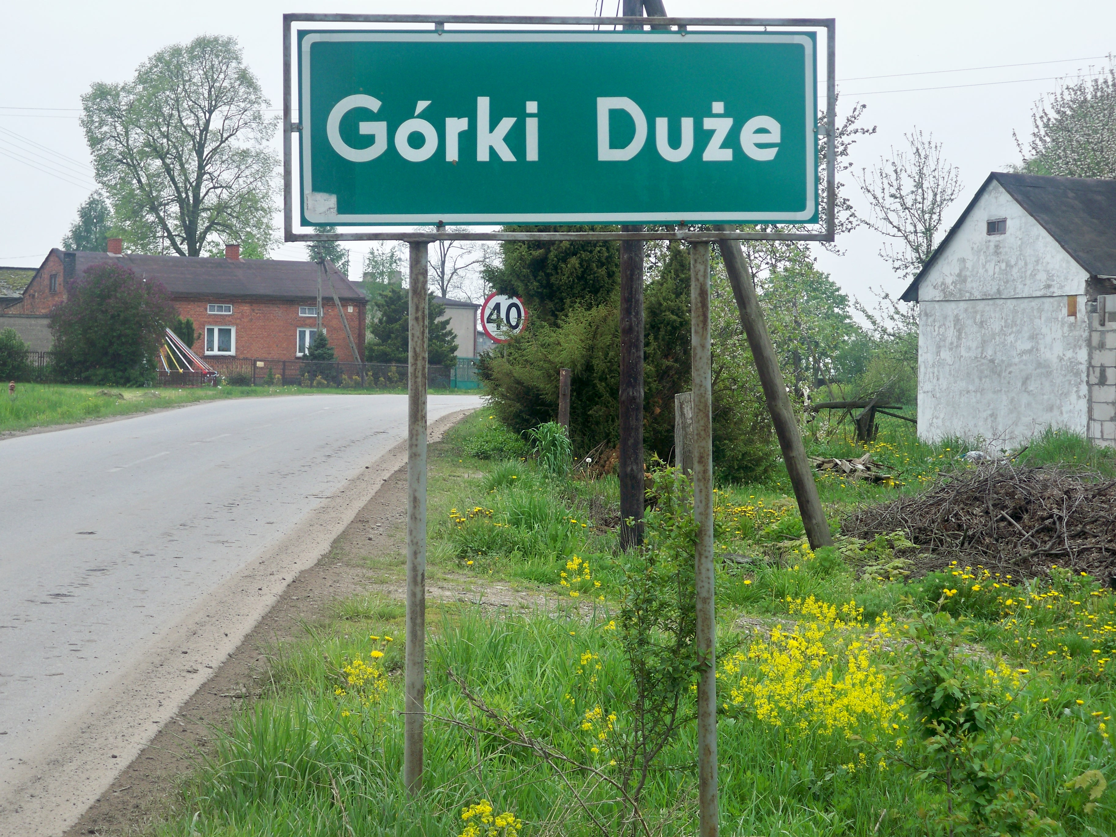 My photo